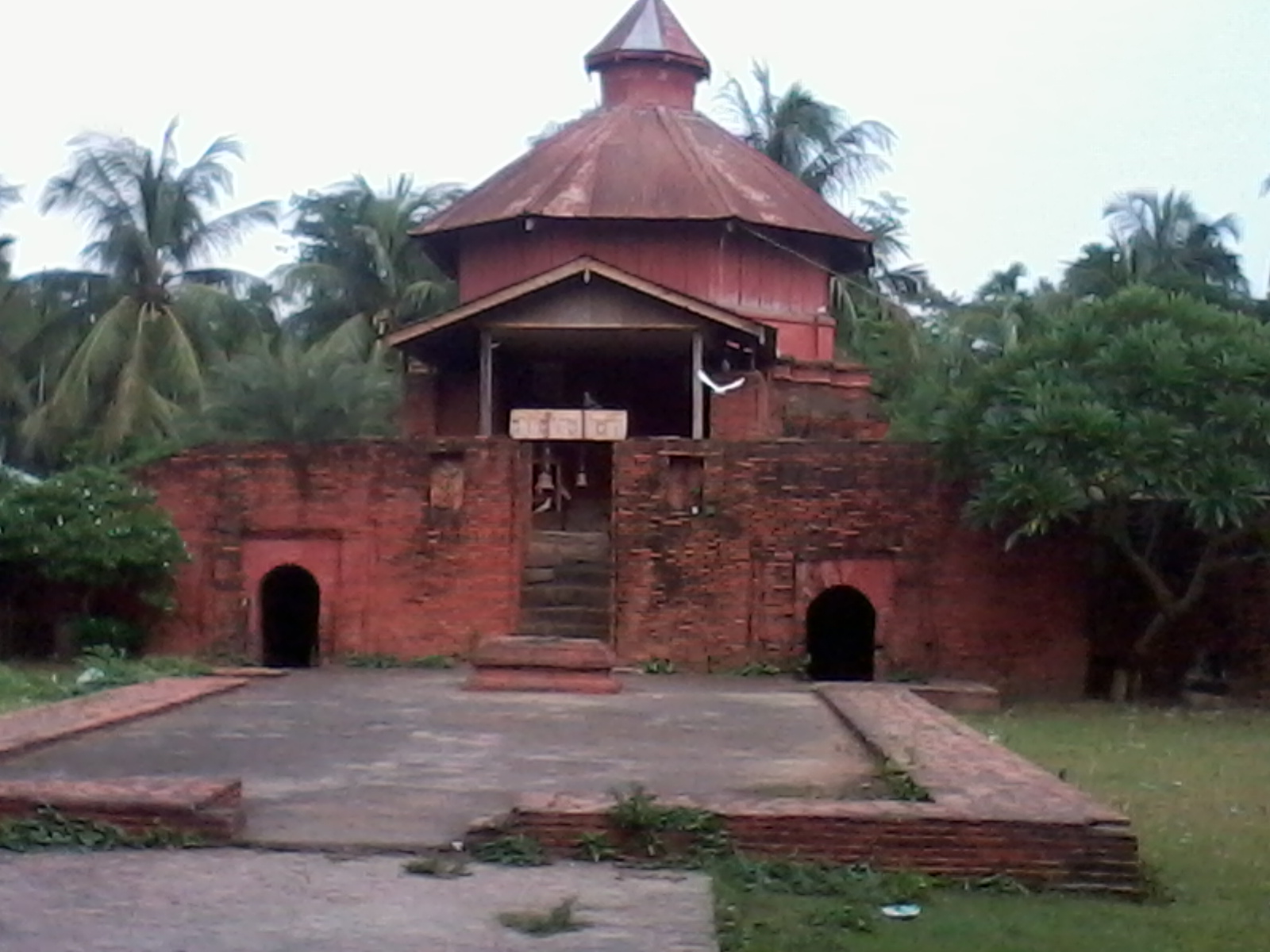 visited Rudreswar Devaloya in North Guwahati and took the photo